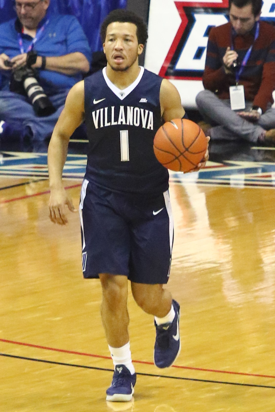 Jalen Brunson for the w:2016–17 Villanova Wildcats men's basketball team at Allstate Arena